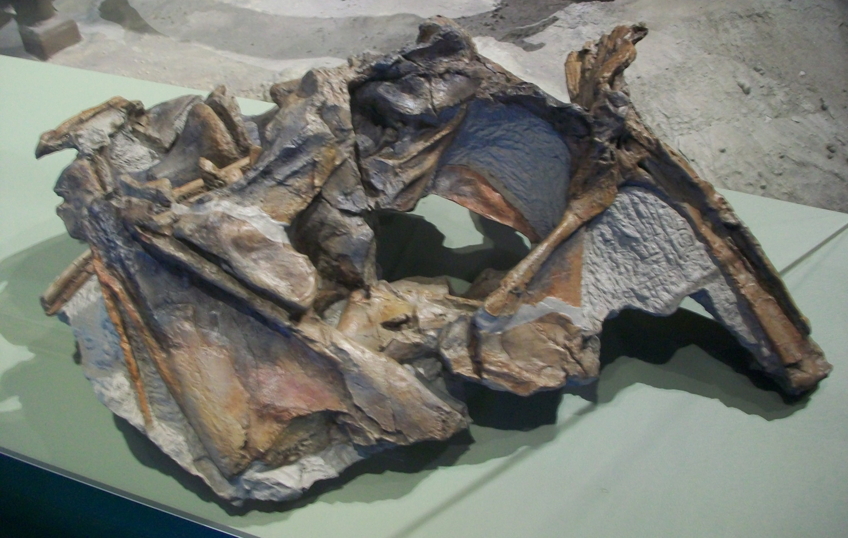 Holotype skull (FMNH PR1821) of Cryolophosaurus ellioti in the Field Museum of Natural History.